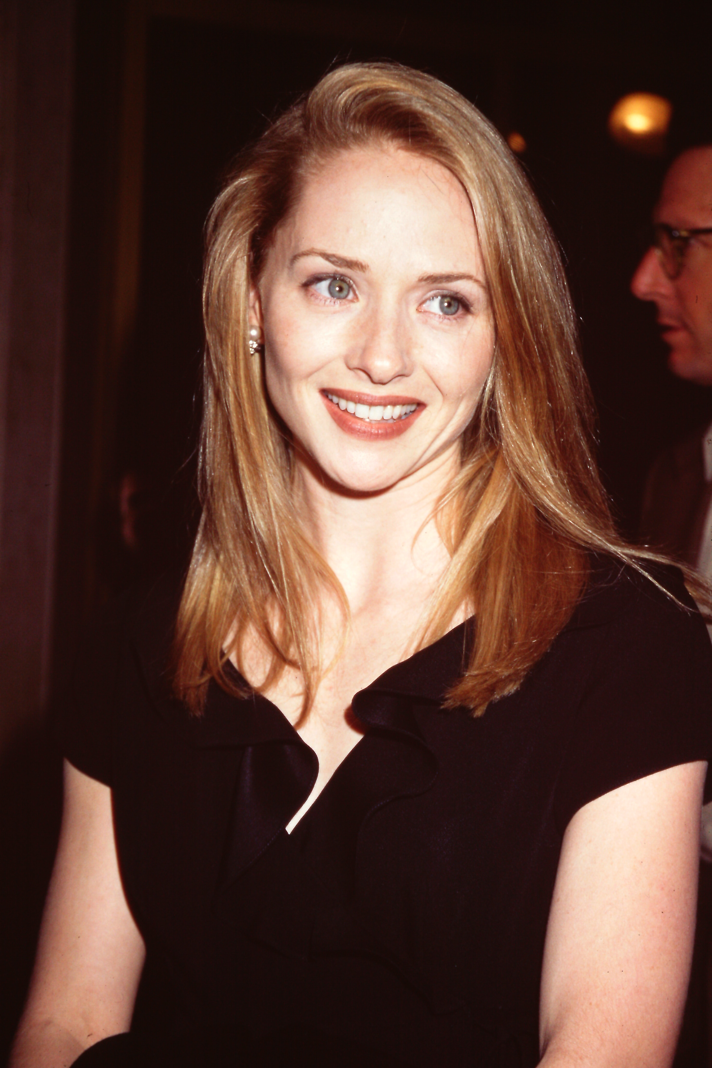 Maria Pitillo - Premiere Bye Bye Love, 03/08/1995 Photo by Kathy Hutchins